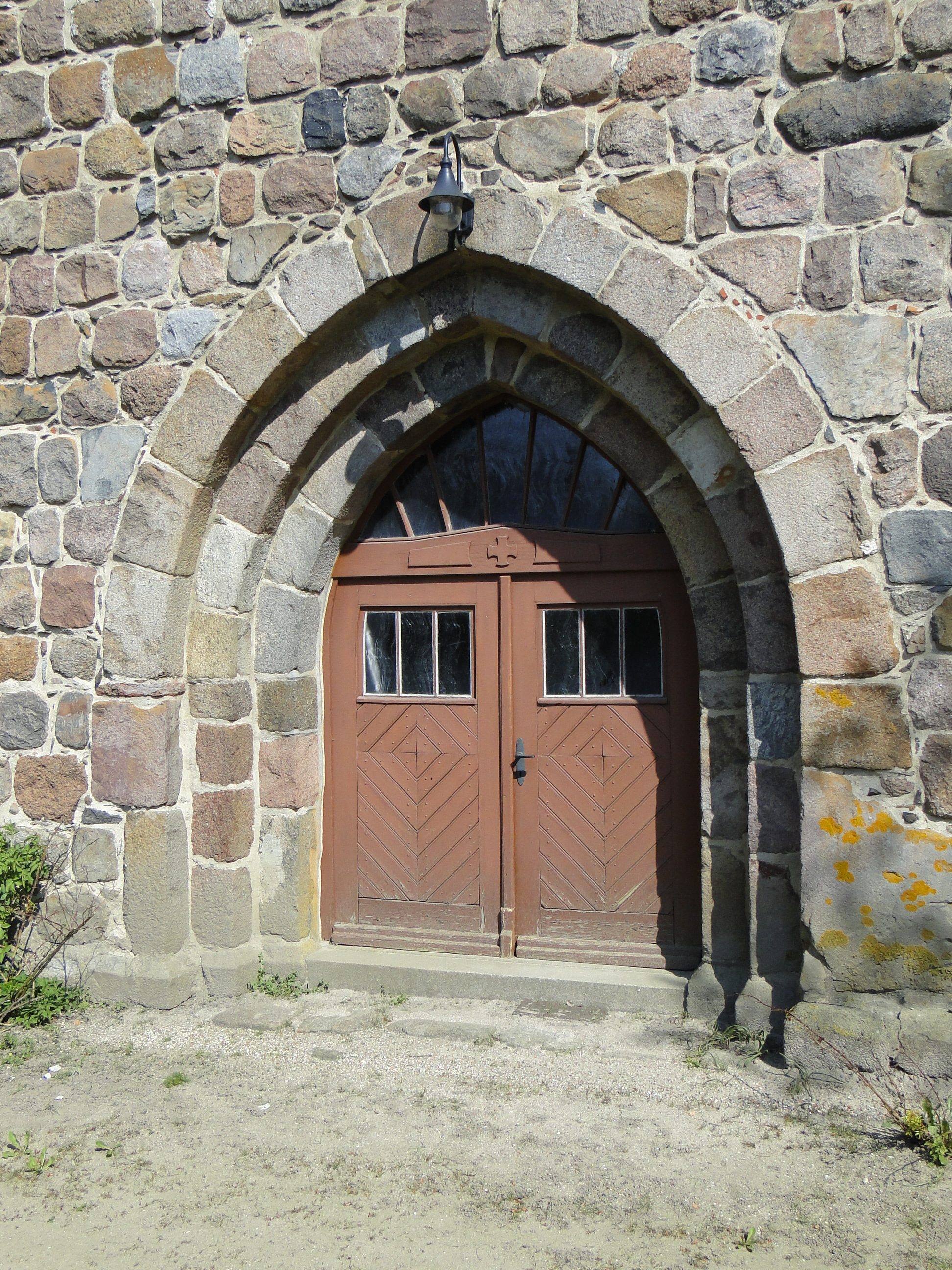 Church in Golm, district Mecklenburg-Strelitz, Mecklenburg-Vorpommern, Germany